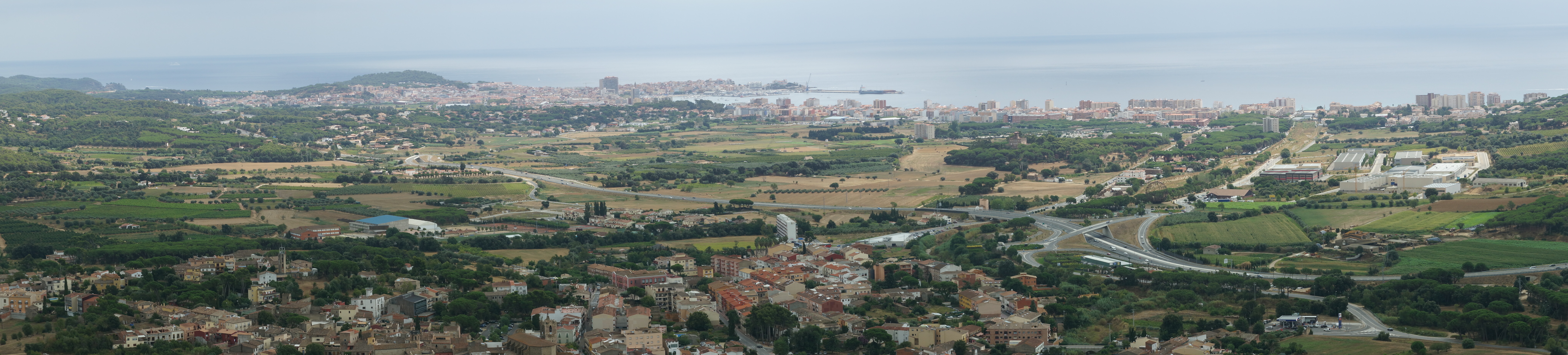 Calonge, Catalonia: Panorama in eastern direction from de ruins of Torre de la Creu del Castellar at the tip of Mount Puig de la Creu del Castellar